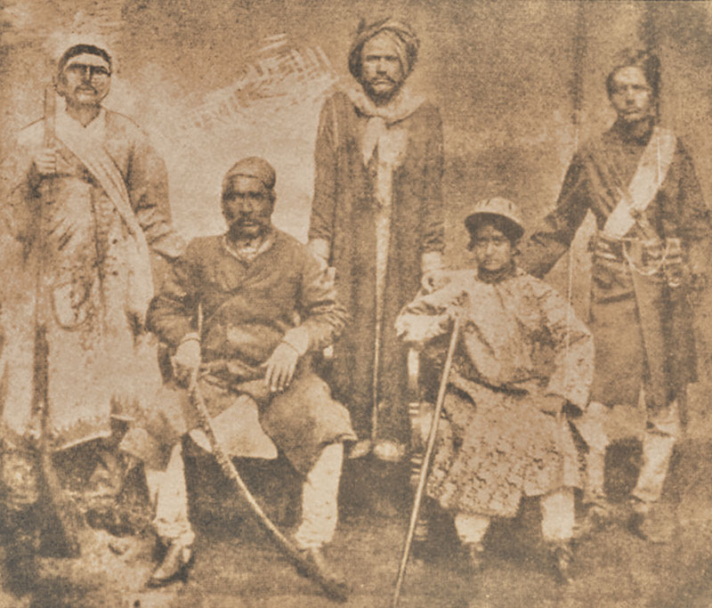 Birjis Qadr in Nepal c. 1870